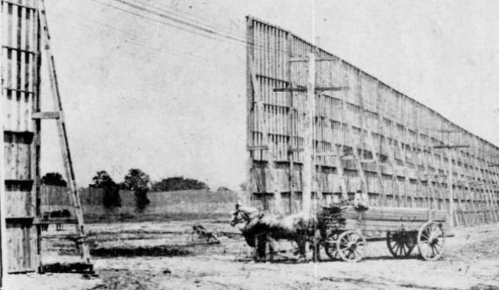 Aeronautic Concourse aerial harbor grounds that held the large passenger balloons